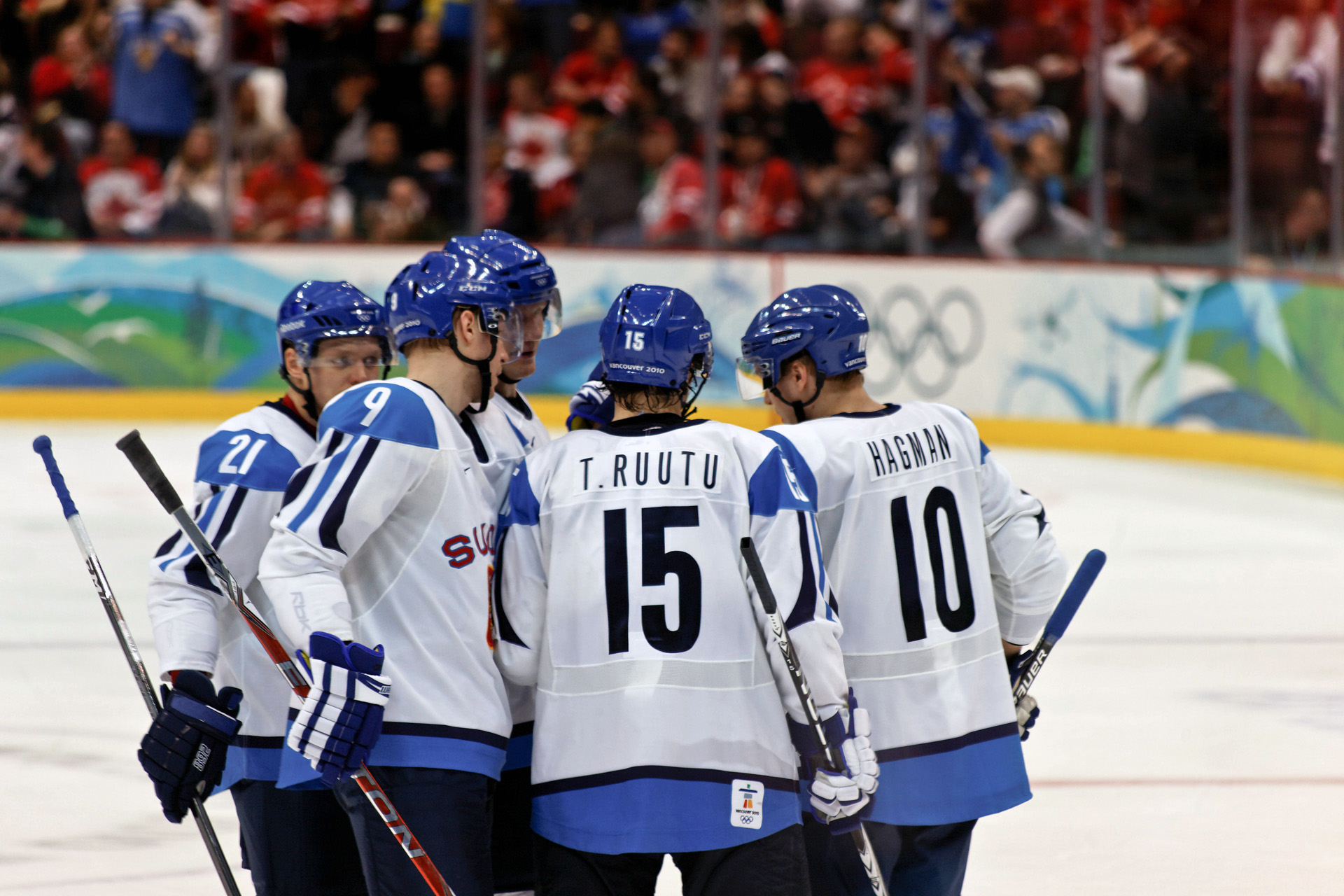 Finland players Janne Niskala (#21, far left), Mikko Koivu (#9, left), Tuomo Ruutu (#15, center) and Niklas Hagman (#10, right) celebrate a goal by Joni Pitkänen against Germany during the 2010 Winter Olympics.